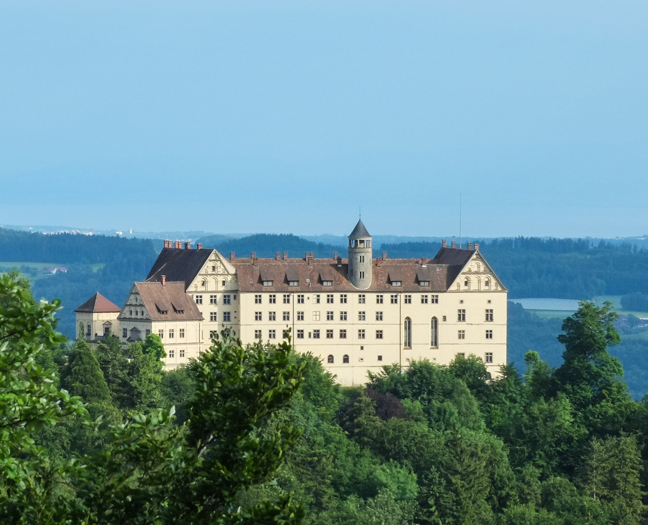 Chateau Heiligenberg, district Bodenseekreis, Baden Wurttemberg, Germany